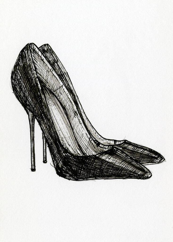 Drawing of the Thesaurus concept : 'stilettos'